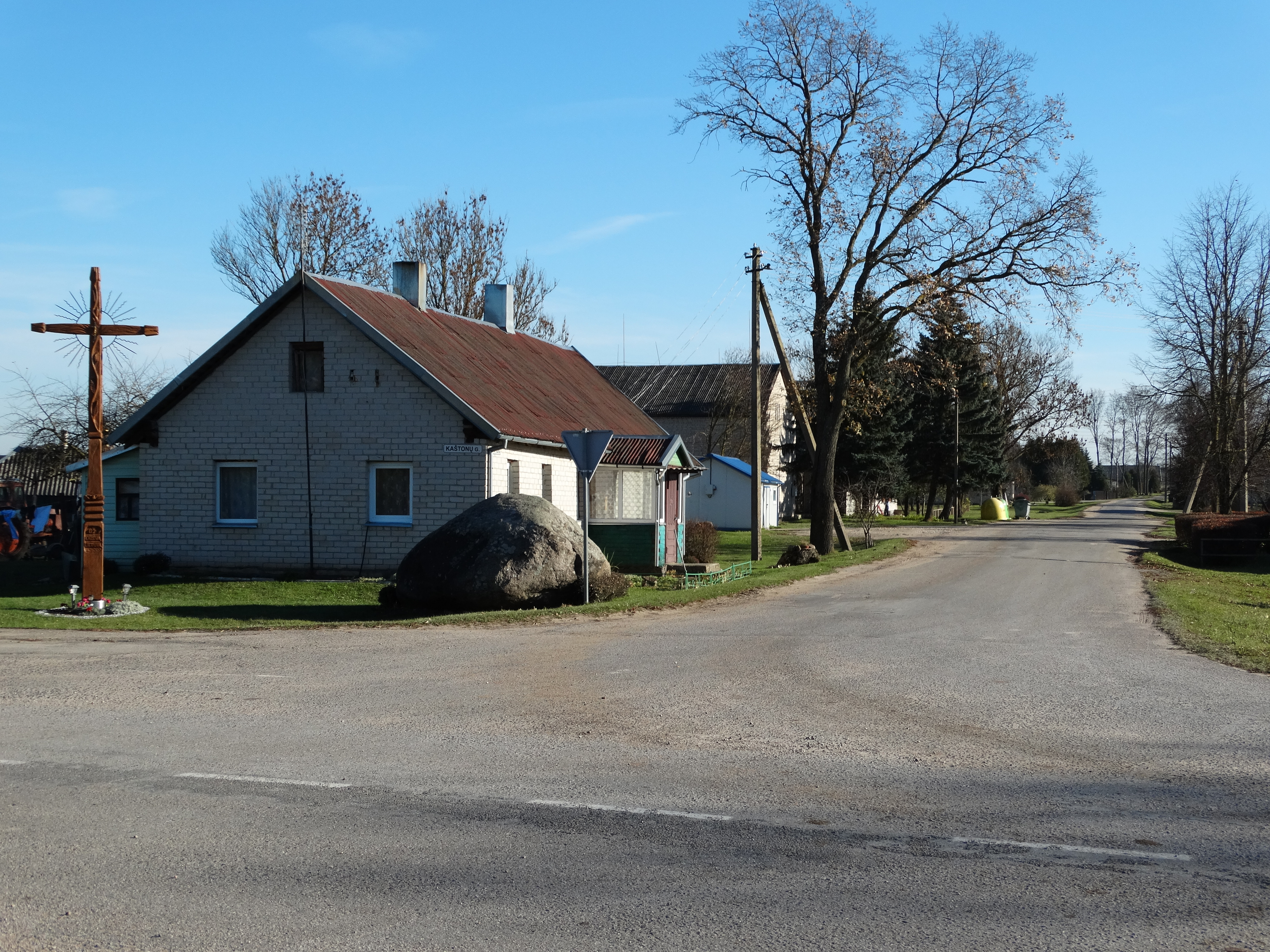 Lukonys, Kupiškis district, Lithuania